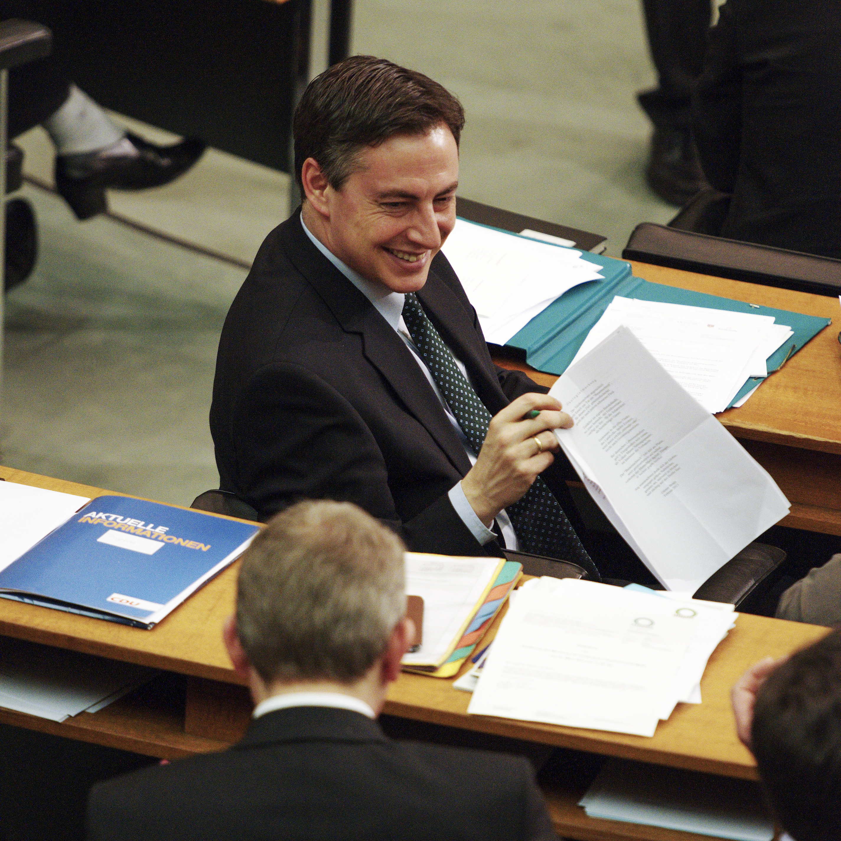 Wikipedia im Landtag – Niedersachsen 19. Februar 2013 in HannoverDieses Bild entstand während der Konstituierende Sitzung des Landtages Niedersachsen 2013 im Landtag Hannover. This work is free and may be used by anyone for any purpose. If you wish to use this content, you do not need to request permission as long as you follow any licensing requirements mentioned on this page.